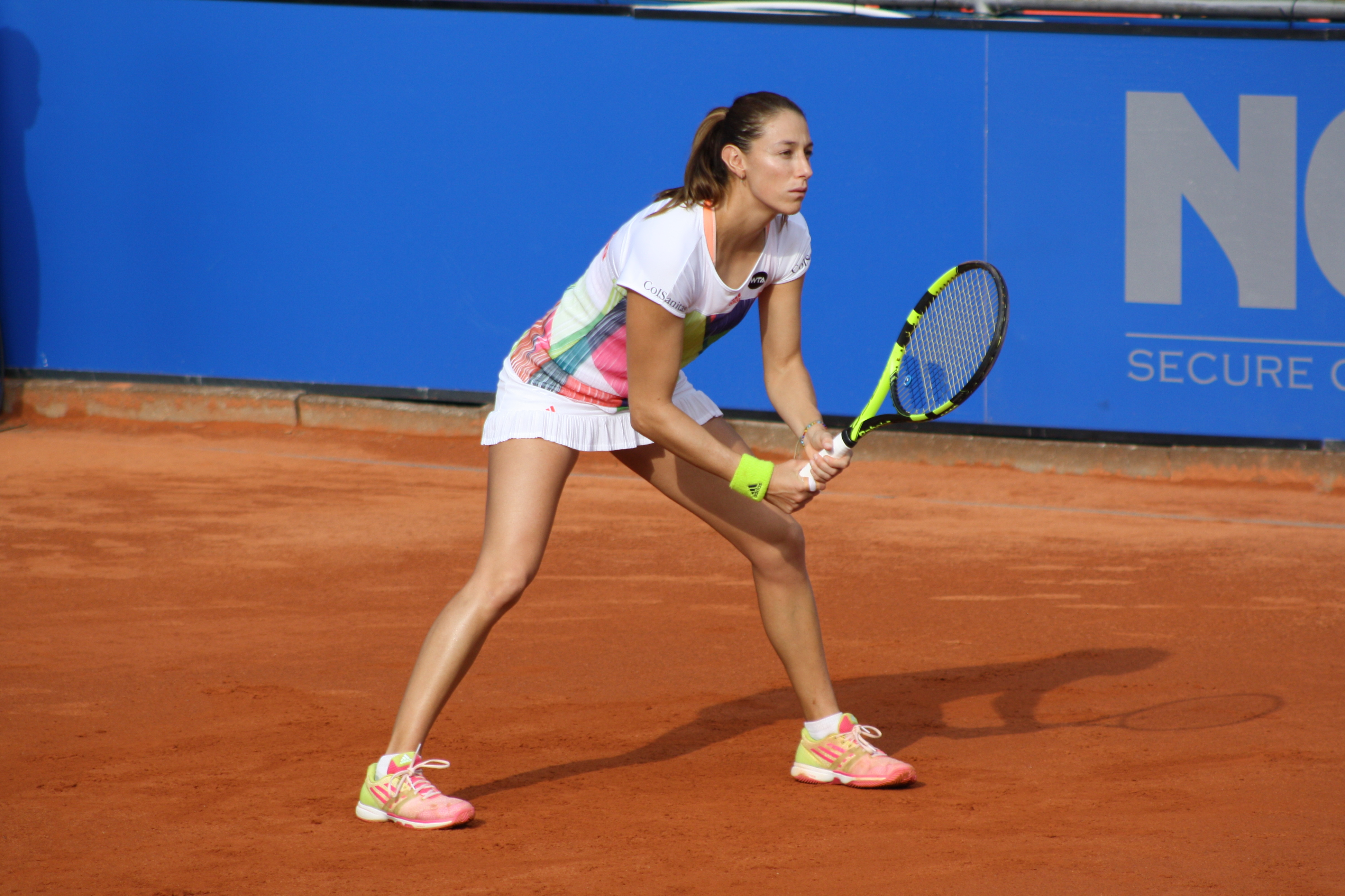 Mariana Duque Mariño, May 2016